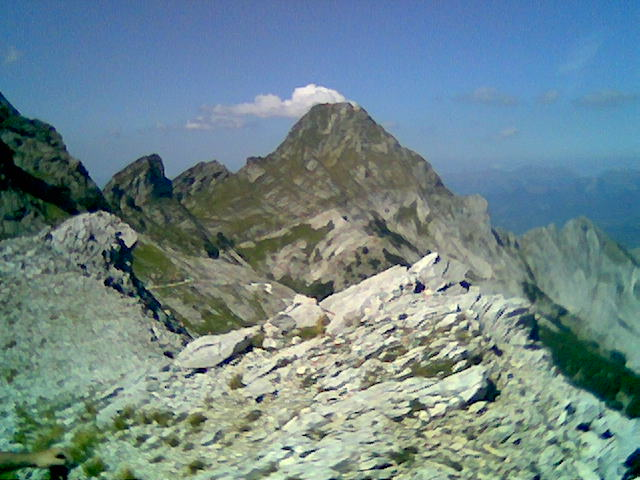 Mt. Pisanino (Tuscany) from Mt. Tambura